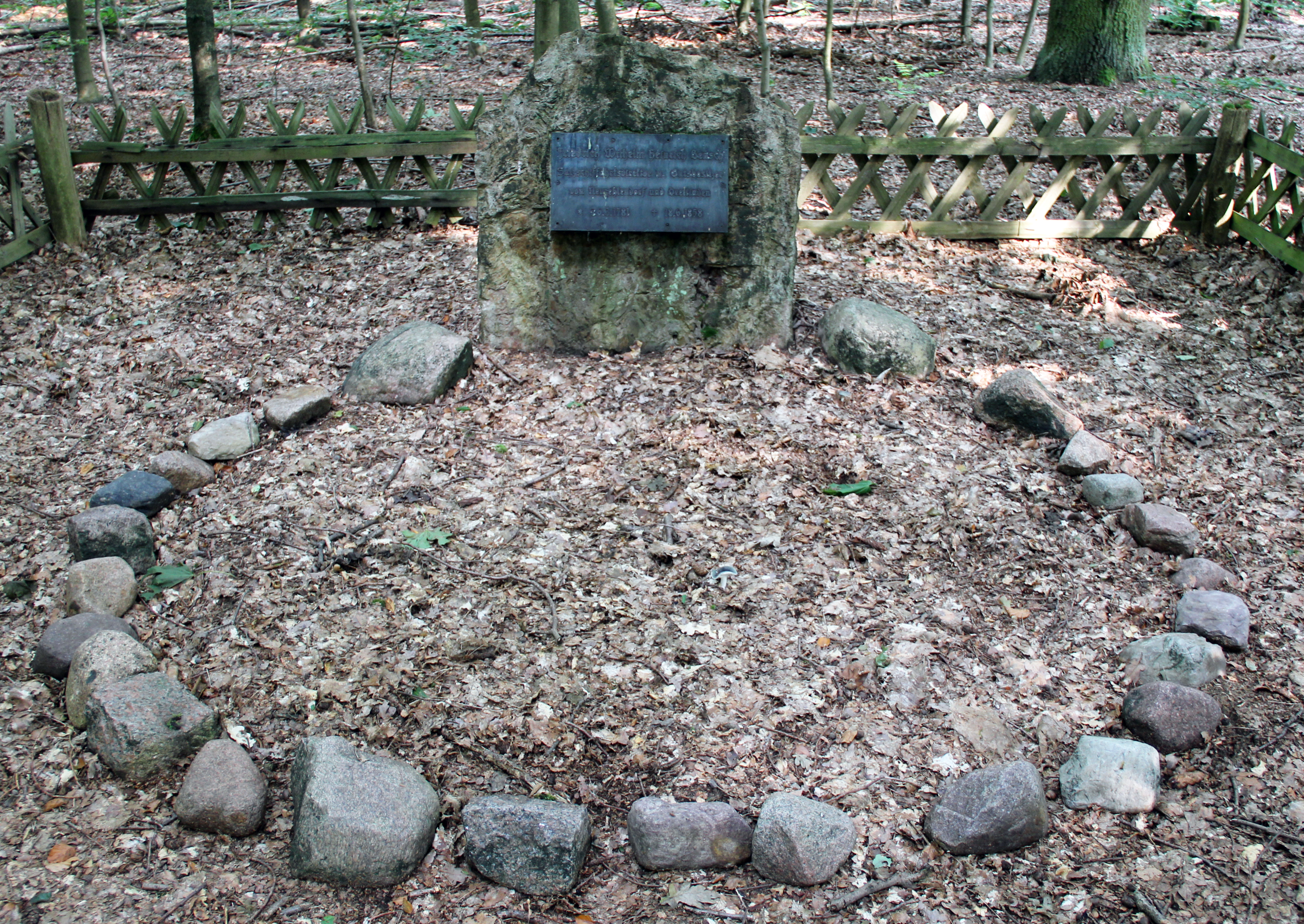 Memorial stone, Friedrich Wilhelm Heinrich Bensch, Stahnsdorfer Damm 3, Berlin-Nikolassee, Germany